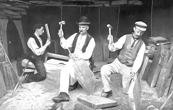 Quarrymen splitting slate at Dinorwig Quarry, Wales c. 1910 Dinorwic Quarry